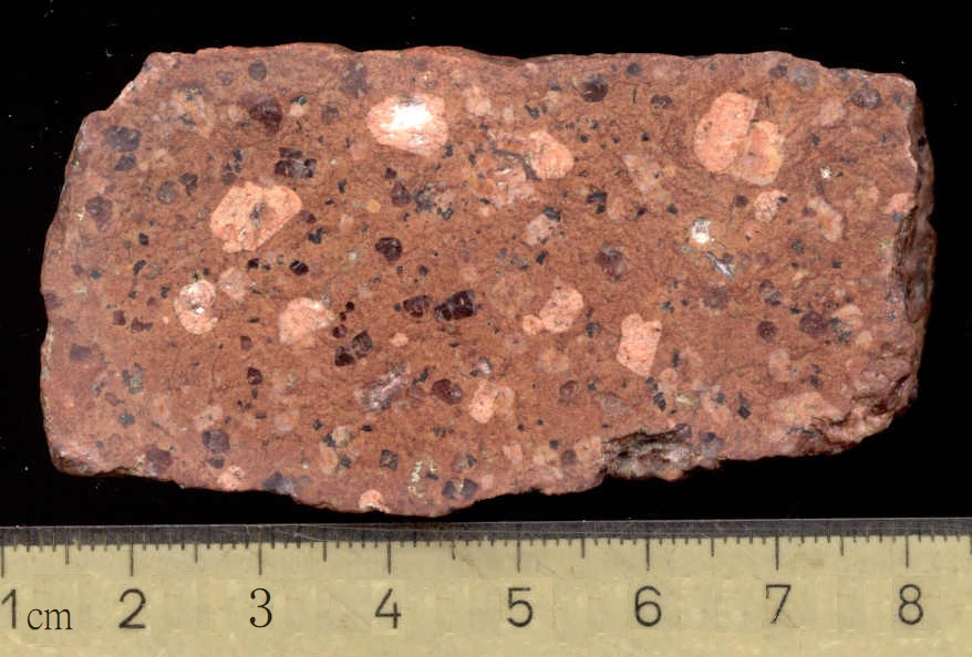 Rhyolite or quartzporphyry ; Löbejün near Halle (Saale); Permian